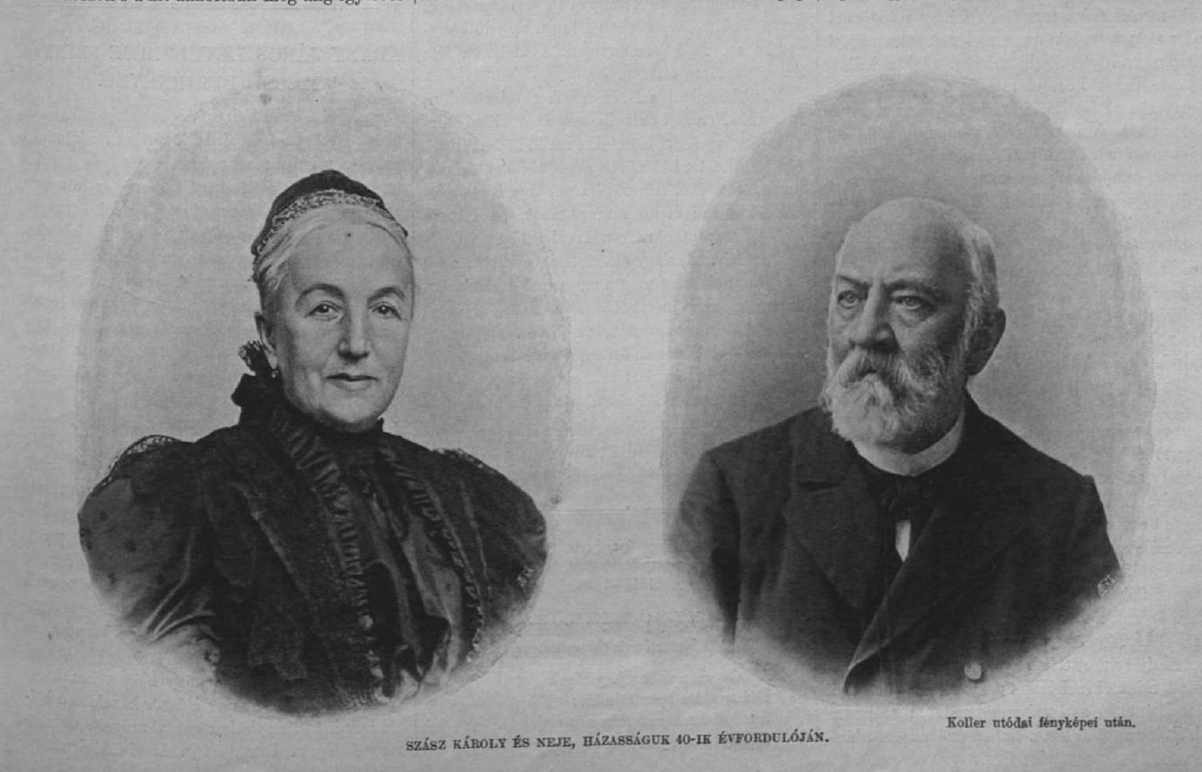 Károly Szász (writer) and his wife, Antónia Bibó